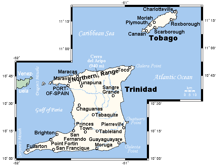 This map has been uploaded by Electionworld from to enable the Wikimedia Atlas of the World . Original uploader to was Kelisi, known as Kelisi at . Electionworld is not the creator of this map. Licensing information is below. Map of Trinidad and Tobago showing main towns, highest point, and other pertinent information. This map's source is here, with the uploader's modifications, and the GMT homepage says that the tools are released under the GNU General Public License.